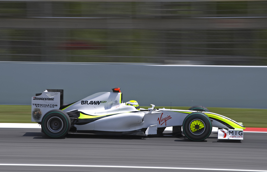 Jenson Button, 2009 Spanish Grand Prix]